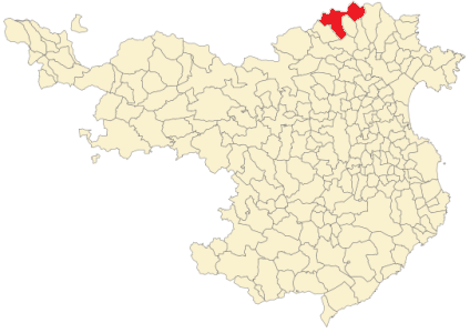 La Junquera